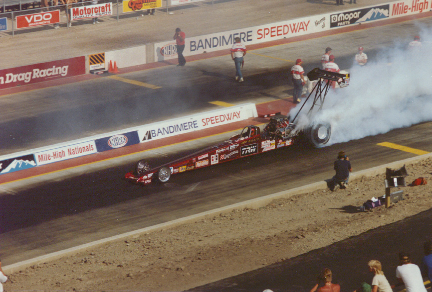 Joe Amato, #9 on the NHRA Top 50 drivers listJoe Amato